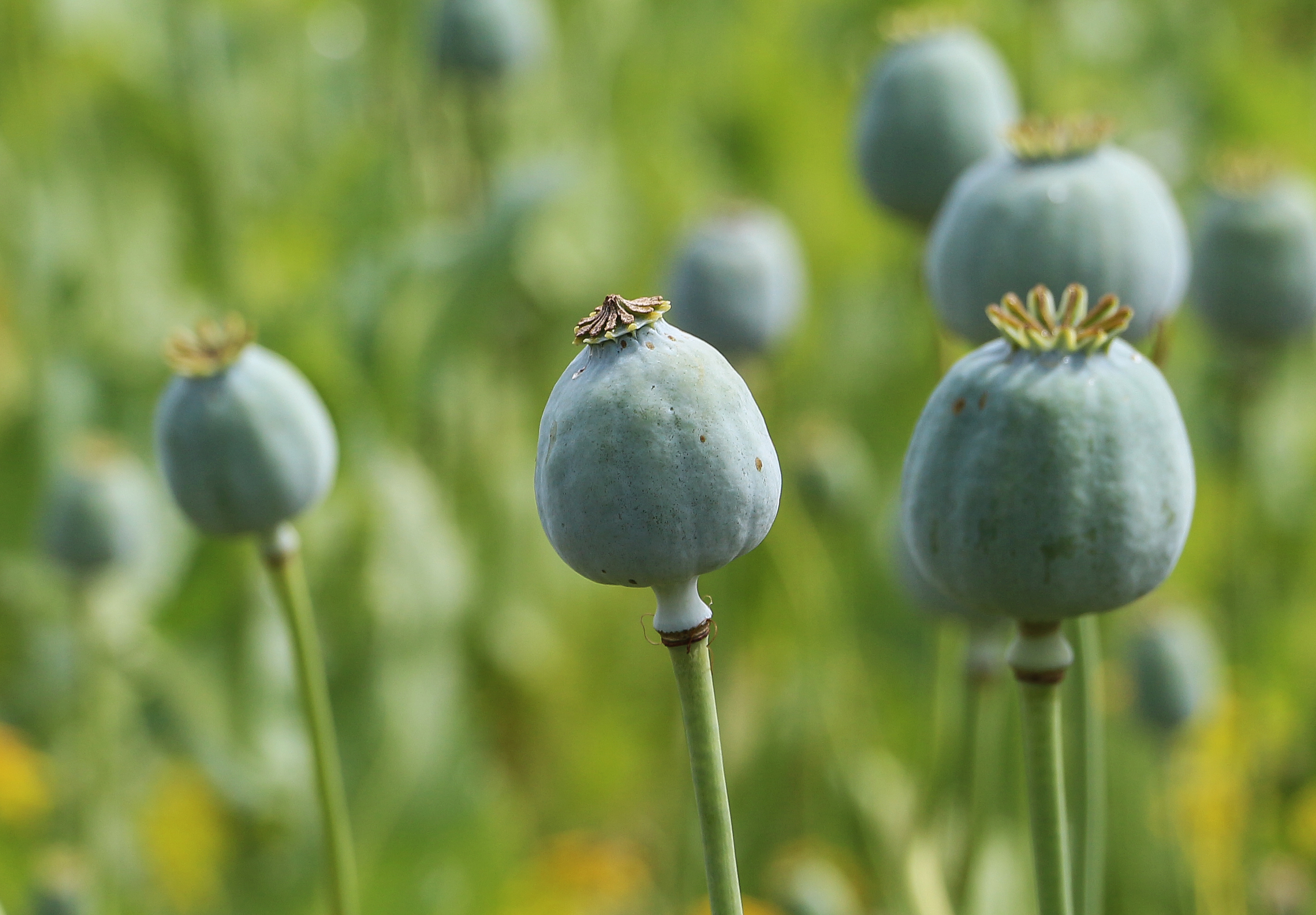 Papaver somniferum in Antalya Province, Turkey